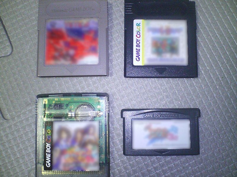 Cartridges for Game Boy and variants Sample for Game Boy cartridge : Tetris Sample for Game Boy & Game Boy Color common cartridge : Dragon Quest I & II Sample for Game Boy Color exclusive cartridge : Welcome to Pia Carrot 2.2 Sample for Game Boy Advance cartridge : Welcome to Pia Carrot 3.3